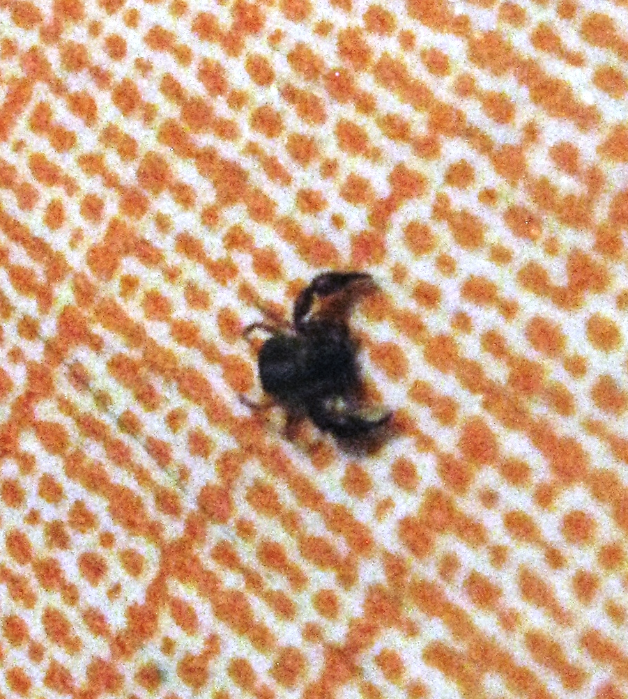 Serianus bolivianus found in my house. Too bad I didn't take a better picture.